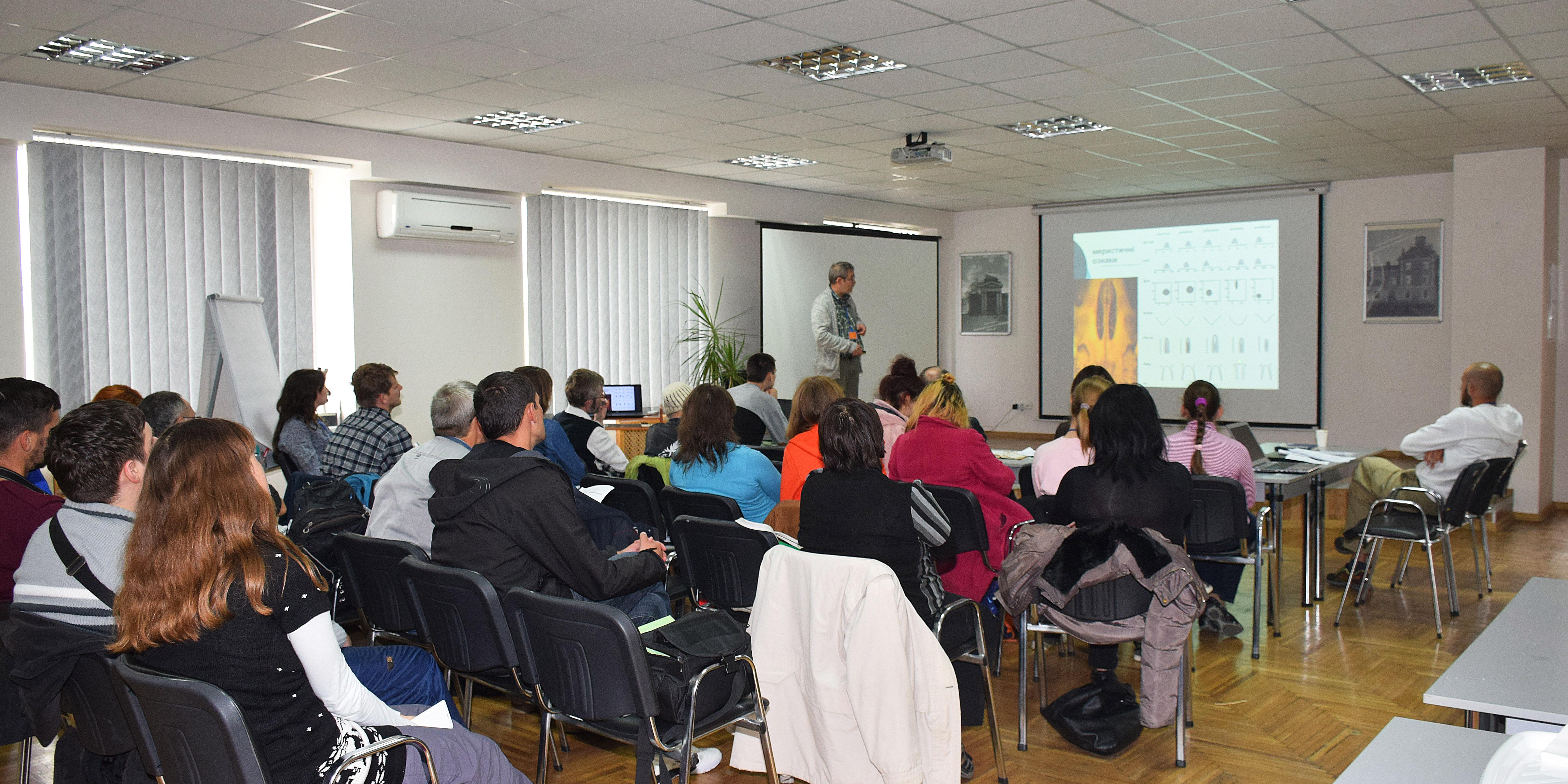 A report by Igor Zagorodniuk during XXIV Theriological School in Odessa